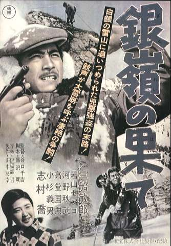 Japanese movie poster for 1947 Japanese film Snow Trail (銀嶺の果て Ginrei no hate).